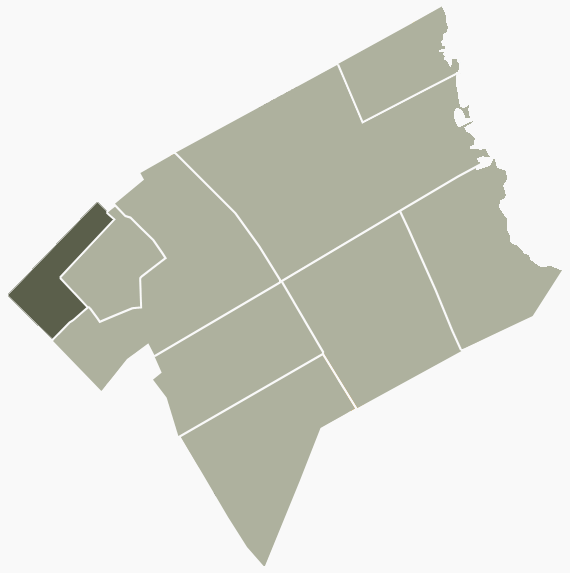 Map of the Vicente López's neighborhood, Villa Adelina.